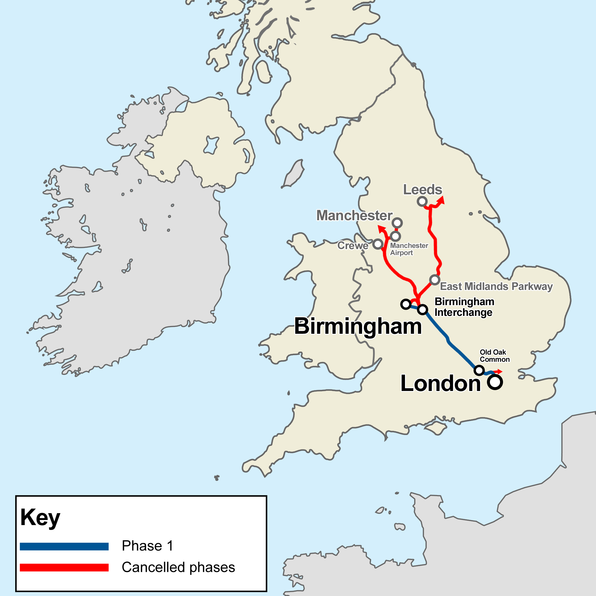 Cropped version